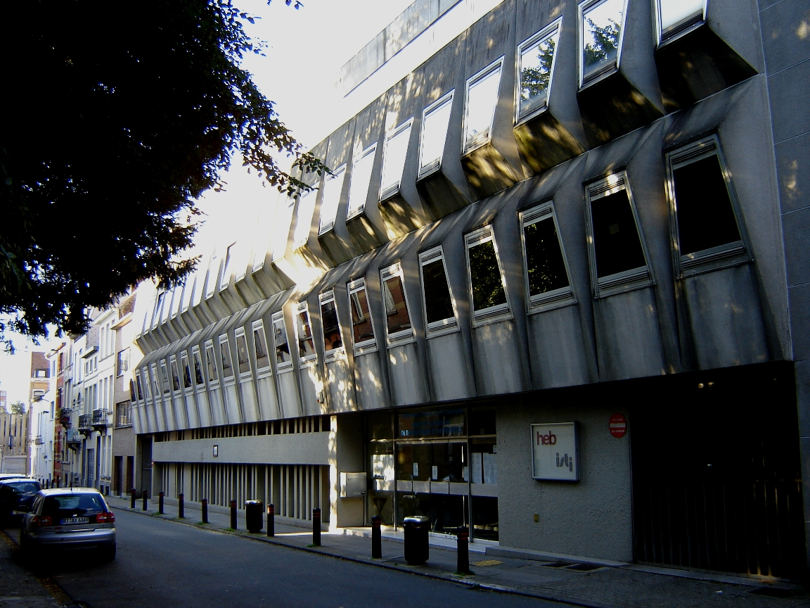 Main entrance to ISTI/HEB, Brussels